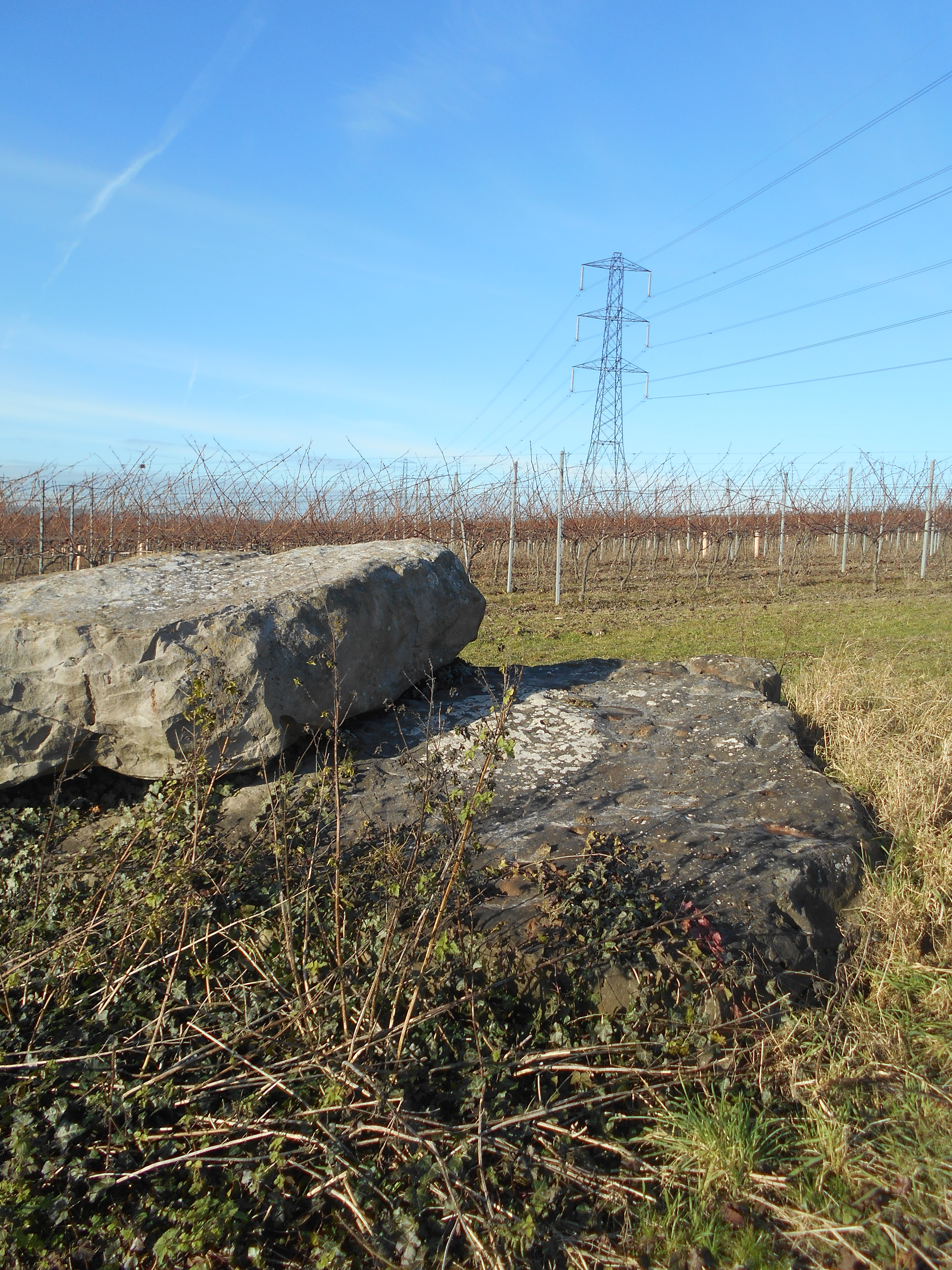 The Coffin Stone, in a vineyard near Blue Bell Hill in Kent, England. Sarsten stones possibly moved from a former neolithic burial chamber nearby.